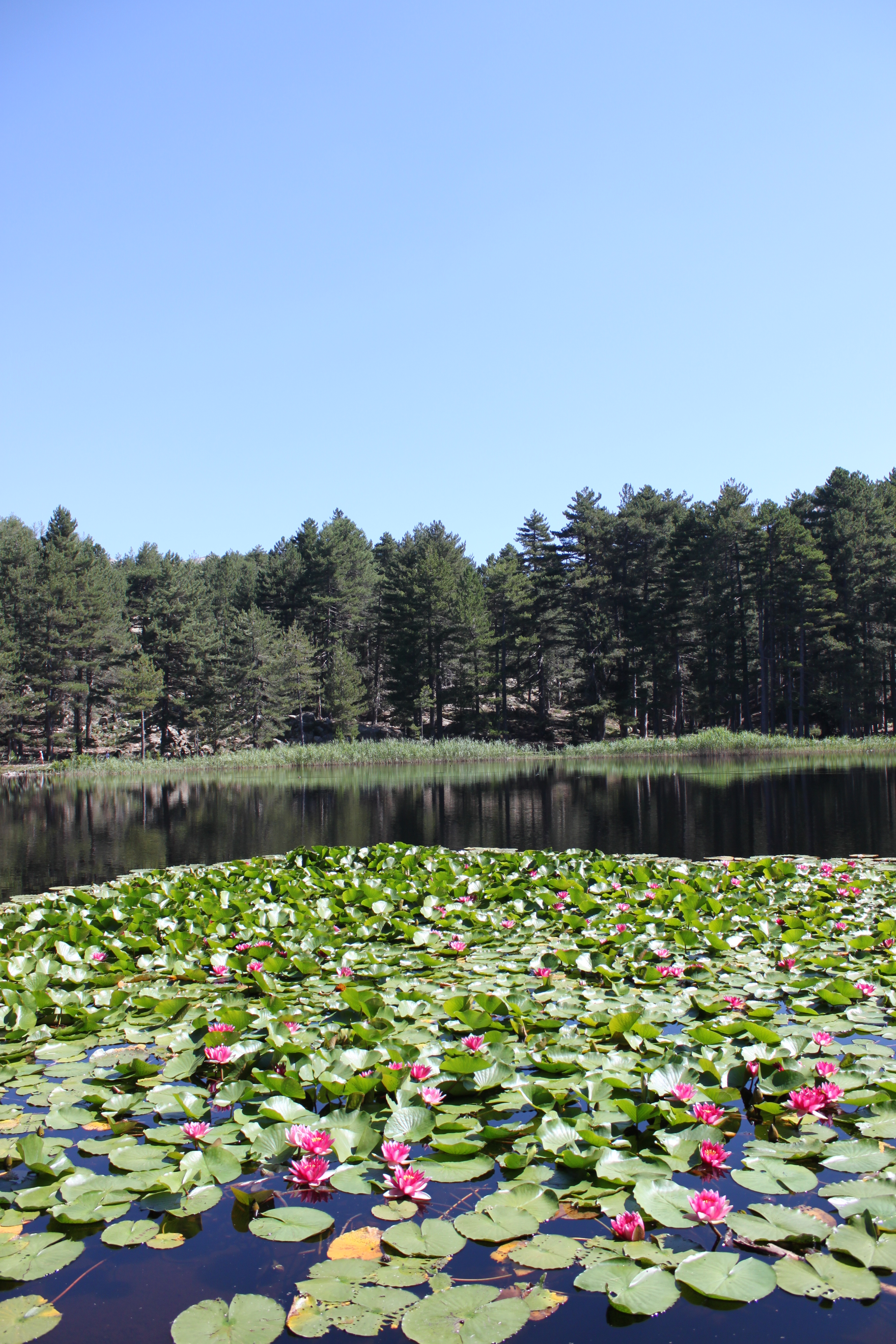 The lack of Crenu